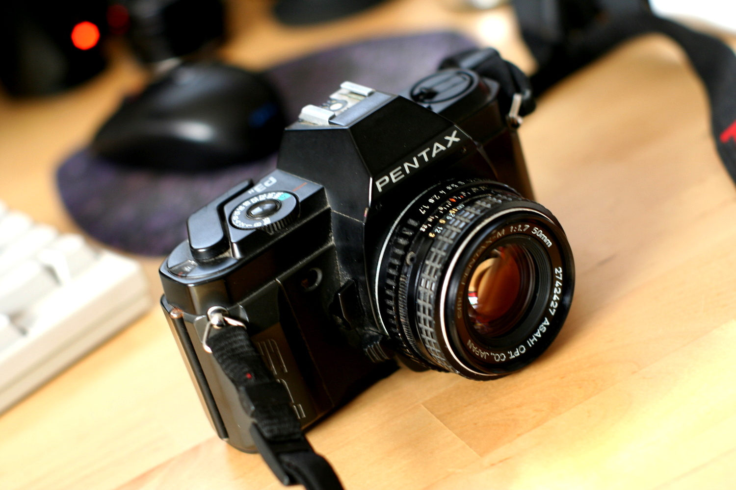 Pentax P3n SLR camera